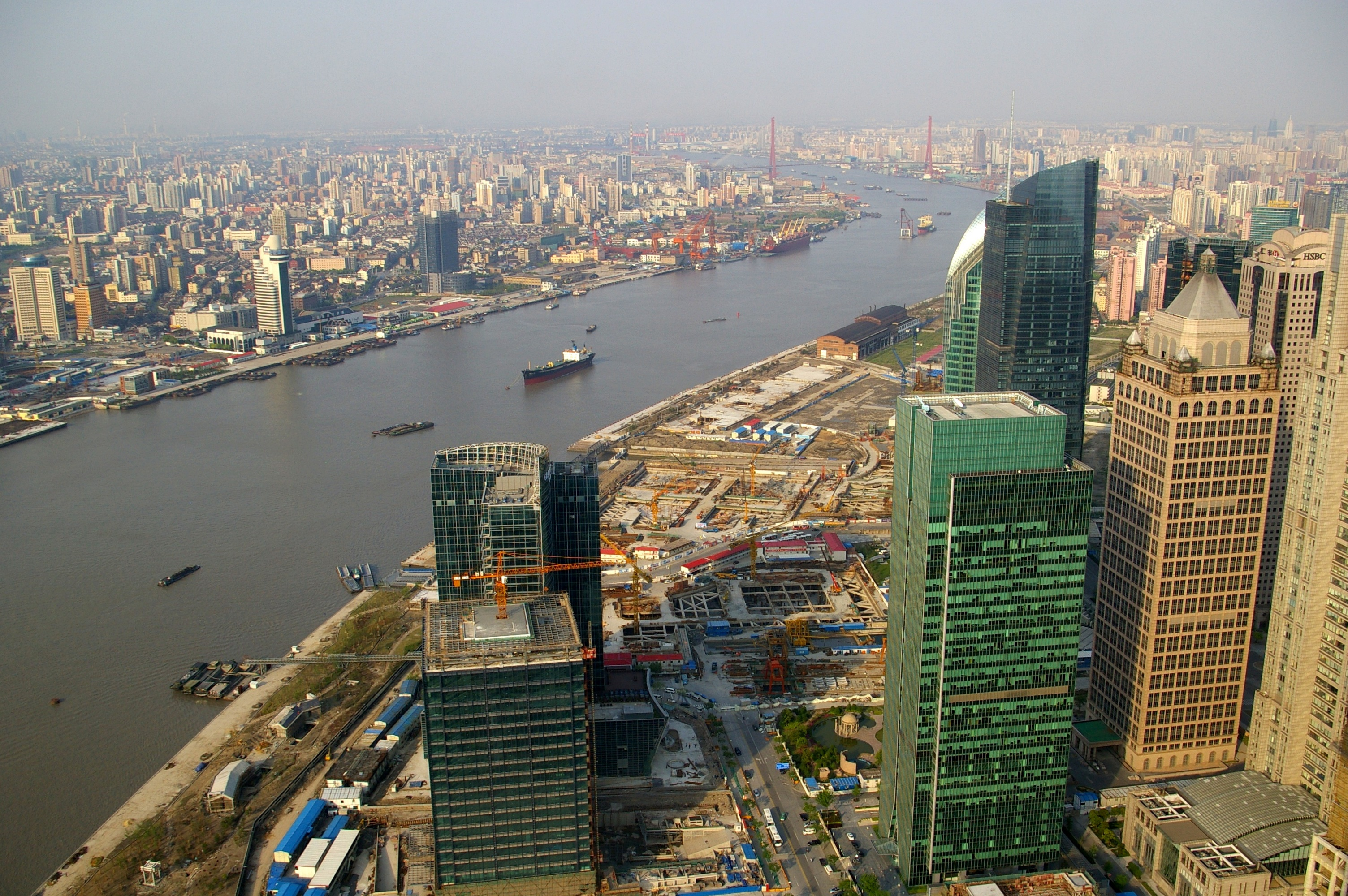 Huangpu river in Shanghai, view from The Oriental Pearl Tower